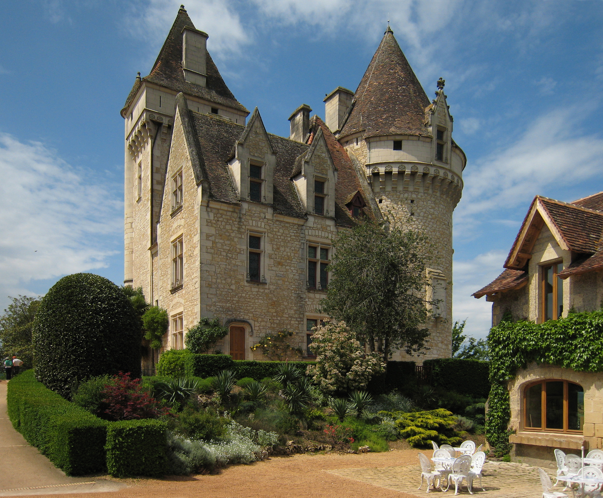 Château Les Milandes in the Département of Dordogne/France - additions in the neo-Gothic style